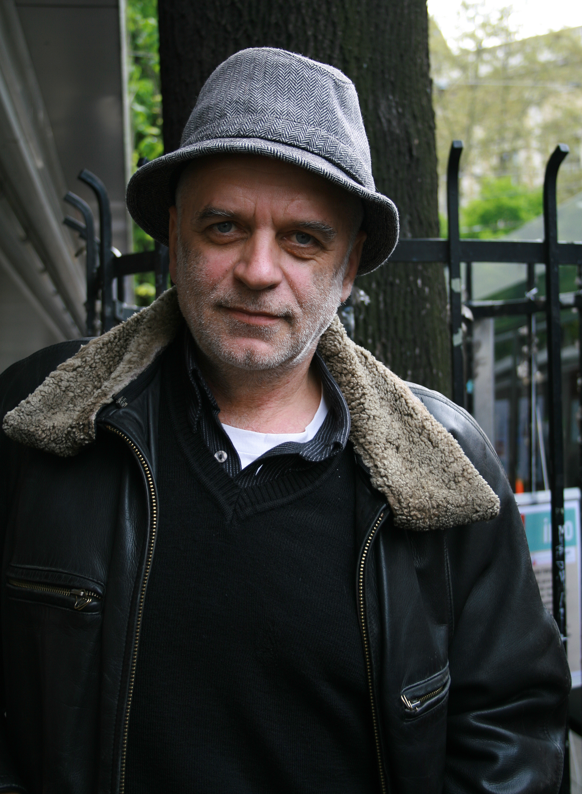 Austrian writer and director Kurt Palm.)